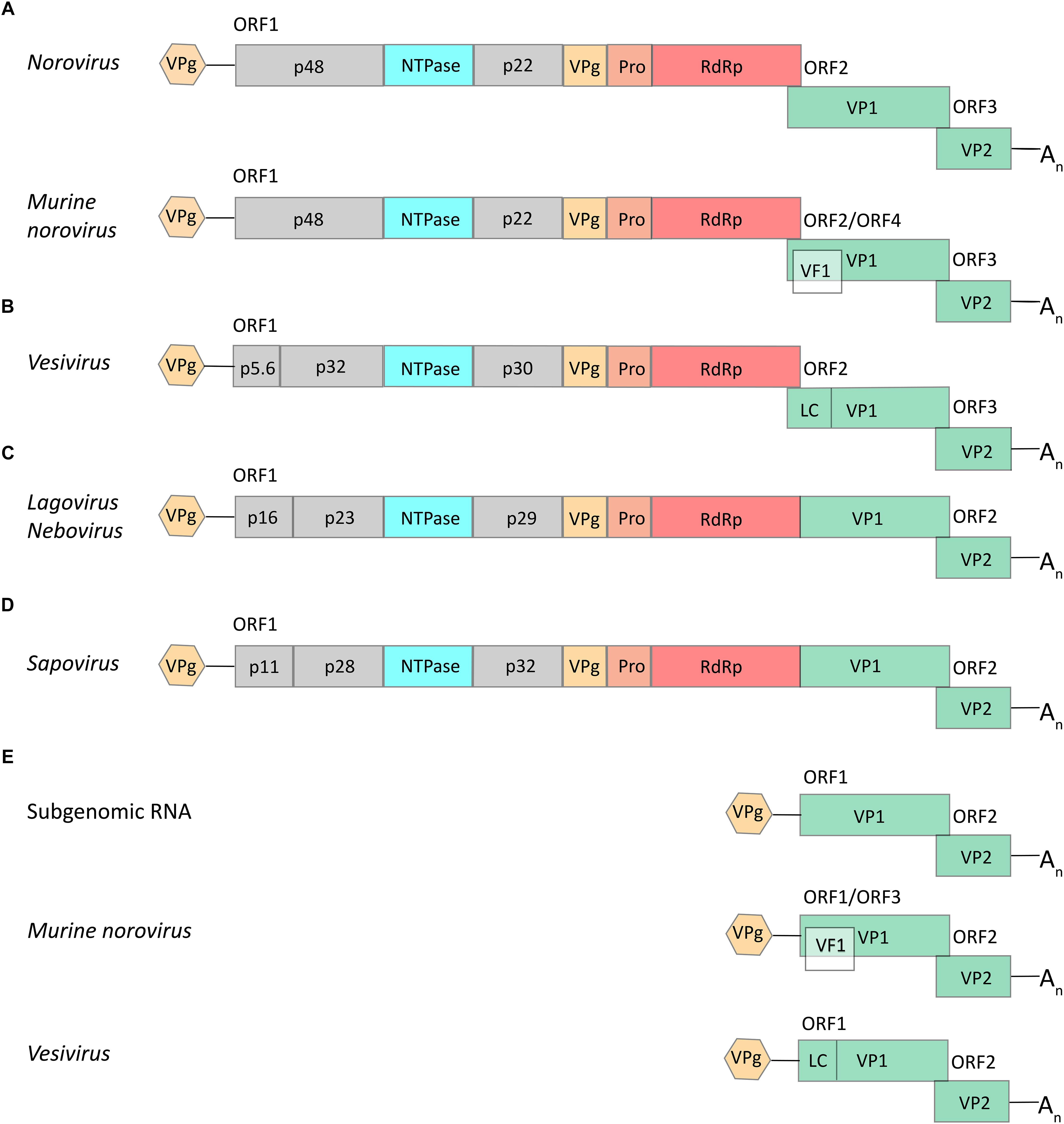 Schematic representations of typical calicivirus genome organizations. (A–D) Genomic full-length RNAs of about 7.5 kb in size contain either two ORFs (in viruses of the genera Lagovirus, Nebovirus, and Sapovirus) or three ORFs (Norovirus and Vesivirus), except for the genomic RNA of Murine norovirus (MNV; genus Norovirus) that may contain an additional ORF (encoding the VF1 protein). (E) All caliciviruses except MNV and vesiviruses have subgenomic RNAs of about 2.1 kb in size with two ORFs that encode the main structural proteins, VP1 and VP2; the subgenomic RNA of MNV includes three ORFs (similar to the corresponding genomic RNA) and the subgenomic RNA of vesiviruses encodes – apart from proteins VP1 and VP2 – a small leader of the capsid protein (LC). Colored boxes represent coding sequences that are flanked by untranslated leader and trailer sequences (shown as lines). Hexagons represent VPg proteins that are covalently bound to the 5′ end of all genomic and subgenomic RNAs; An represents the poly(A) tail at the 3′ end of all genomic and subgenomic RNAs.